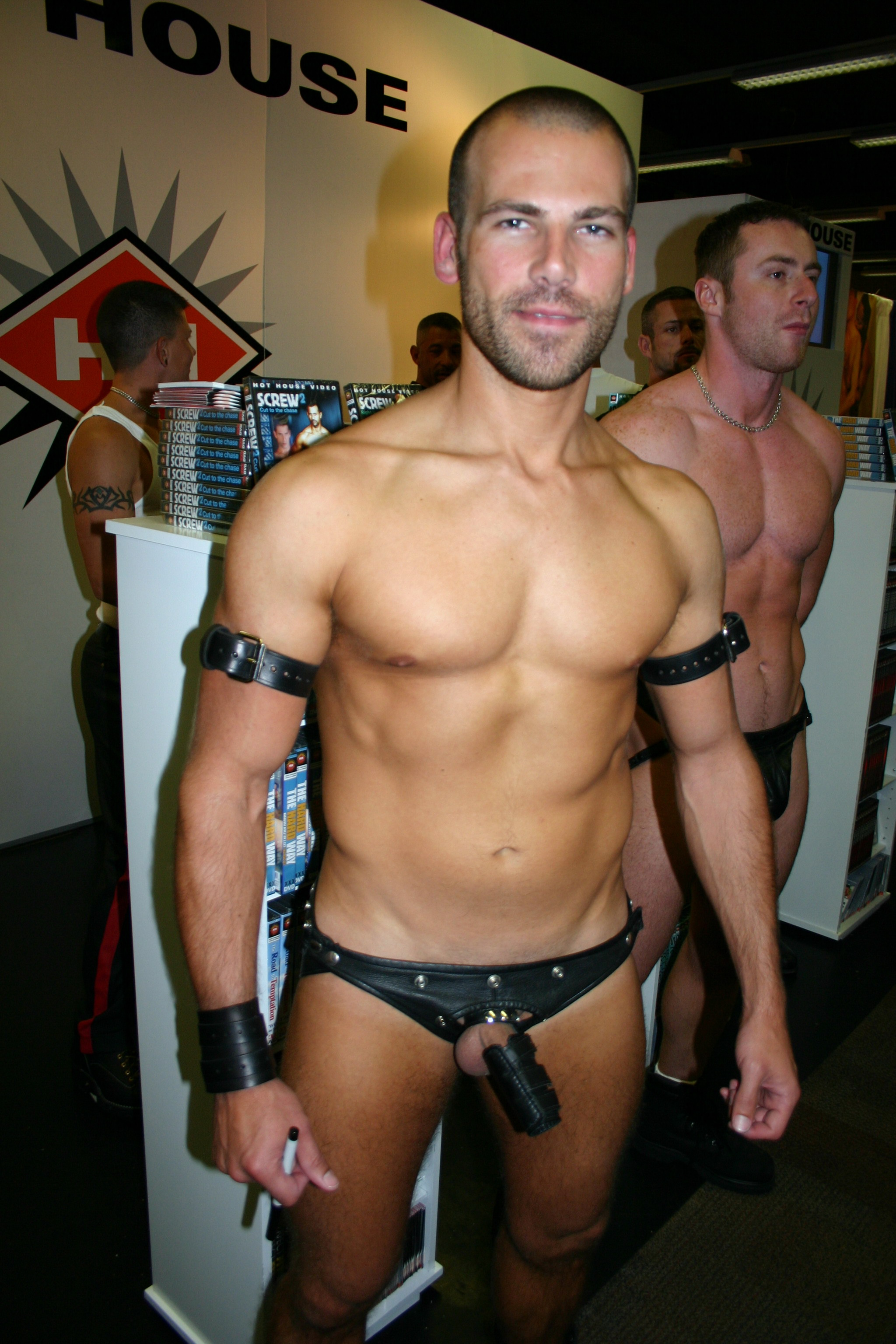 The 2005 IML Leather Market - Hot House star Jason Ridge